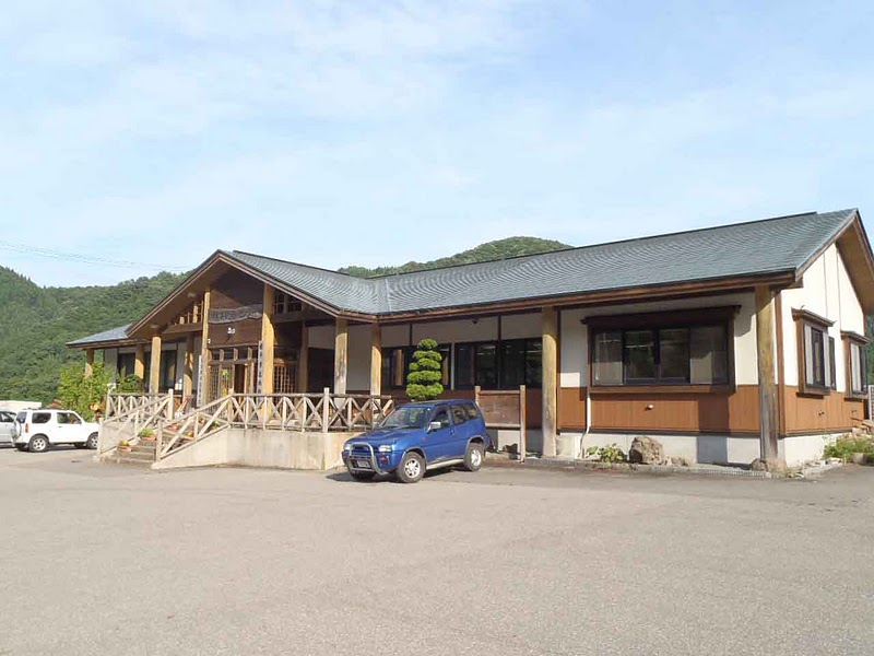 Yokote Shinrin Kumiai ("Yokote City Forestry Cooperative")